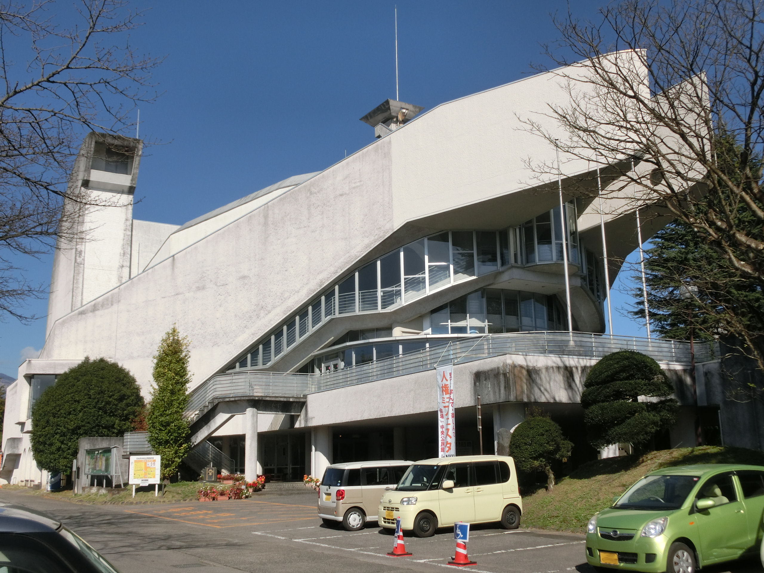 Imaichi Cultural Hall